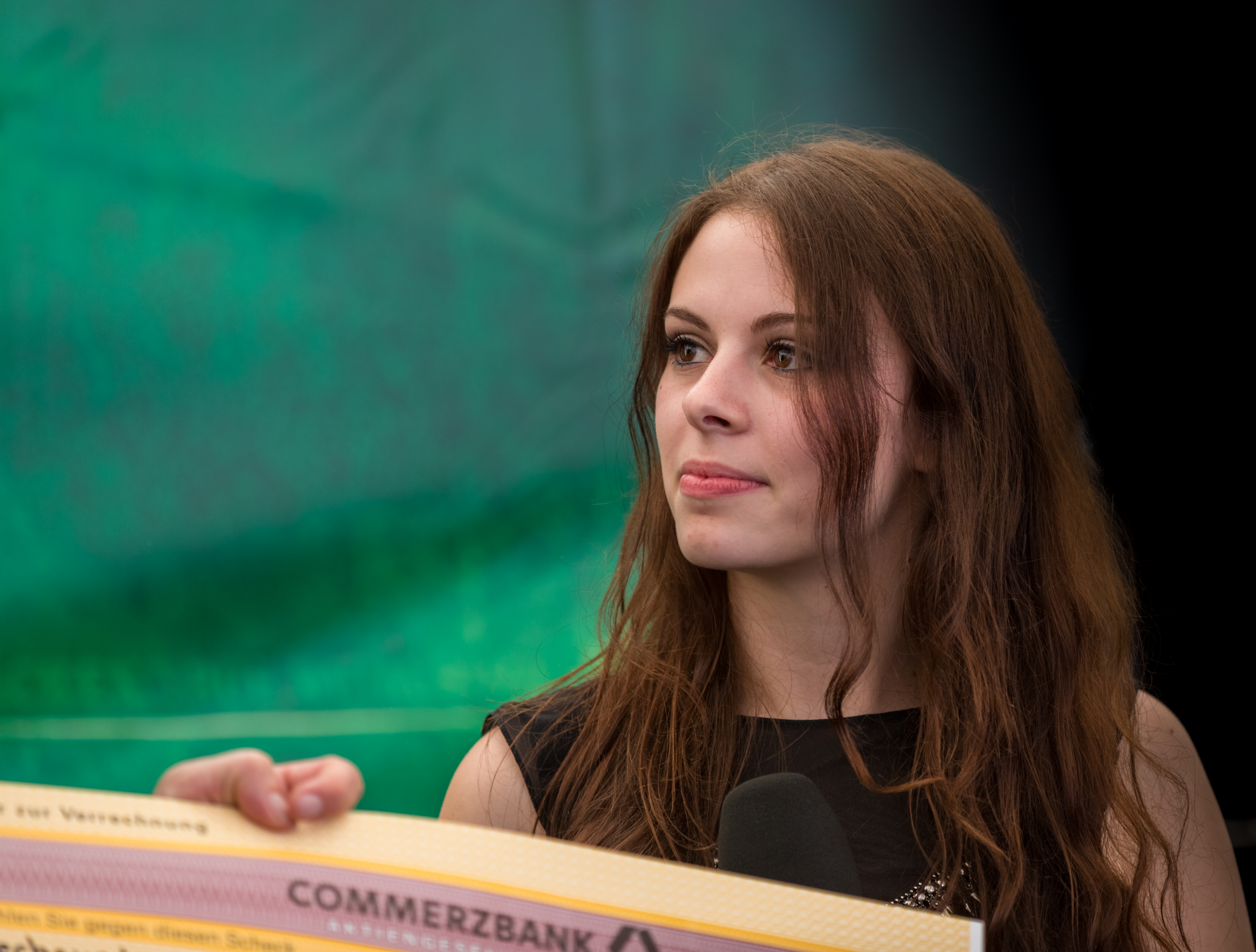 Beyond The Black Wacken Open Air 2016